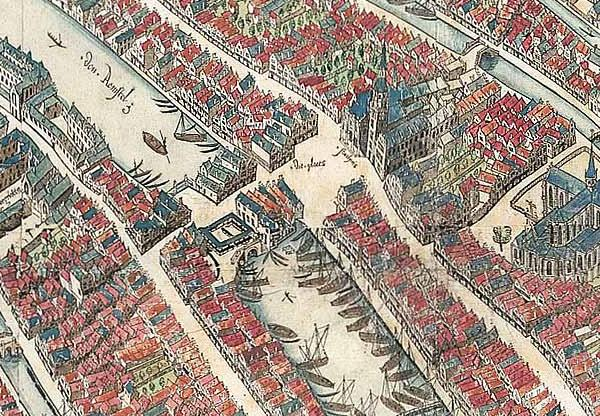 A portion of a bird's eye map of Amsterdam (facing inland, approximately south) made by Cornelis Anthonisz in the year 1544. The Dam is in the center, with the Old Town Hall and the Nieuwe Kerk to the right.